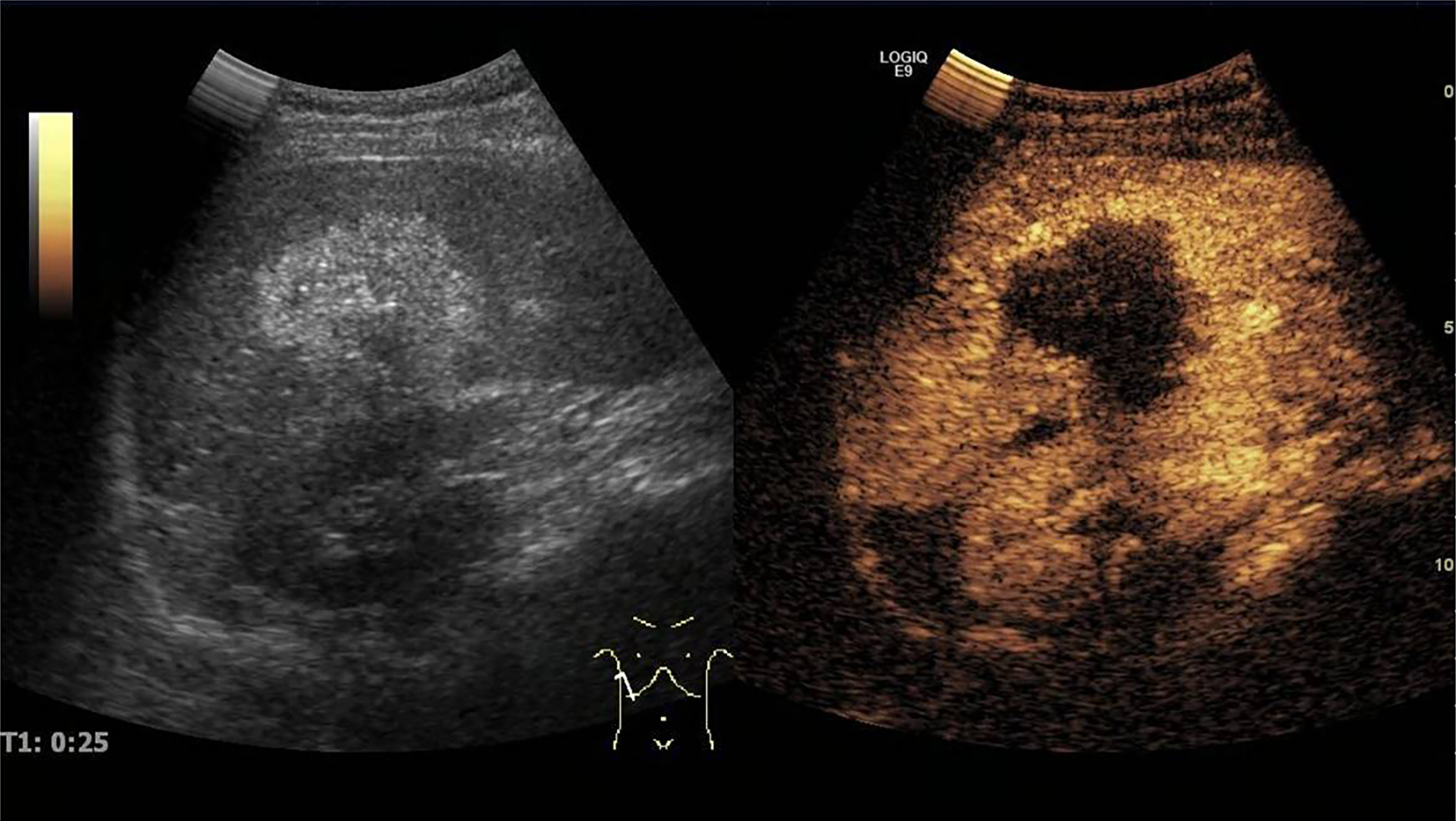 Innovation in hepatic alveolar echinococcosis imaging. Figure 7 of paper: Contrast-enhanced Ultrasonography (CEUS) using SonoVue®in a case of hepatic alveolar echinococcosis. CEUS showed a hepatic mass with irregular rim enhancement in the peripheral areas and no enhancement within the central areas at the hepatic artery phase (25 s).